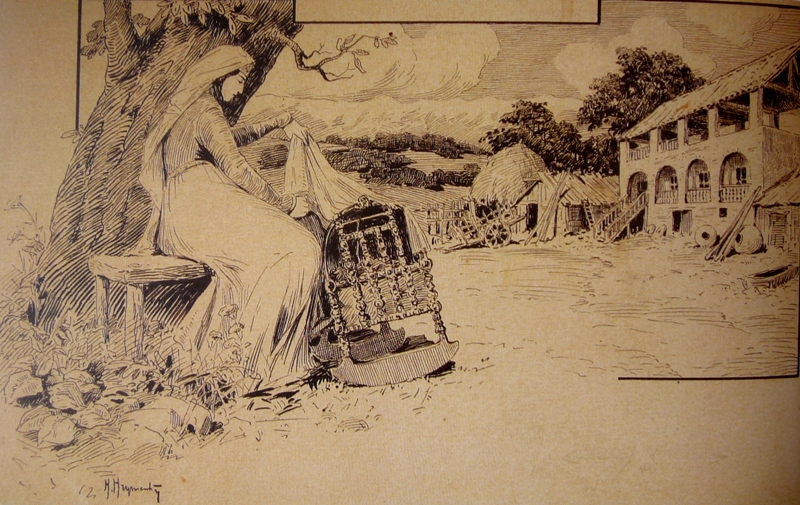 Henryk Hrynievski, Georgian lullaby - Nana.